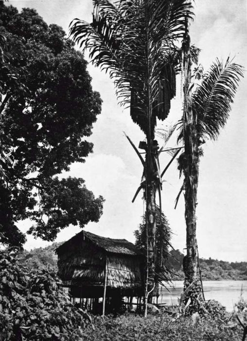 Aren palm trees standing next to a cottage